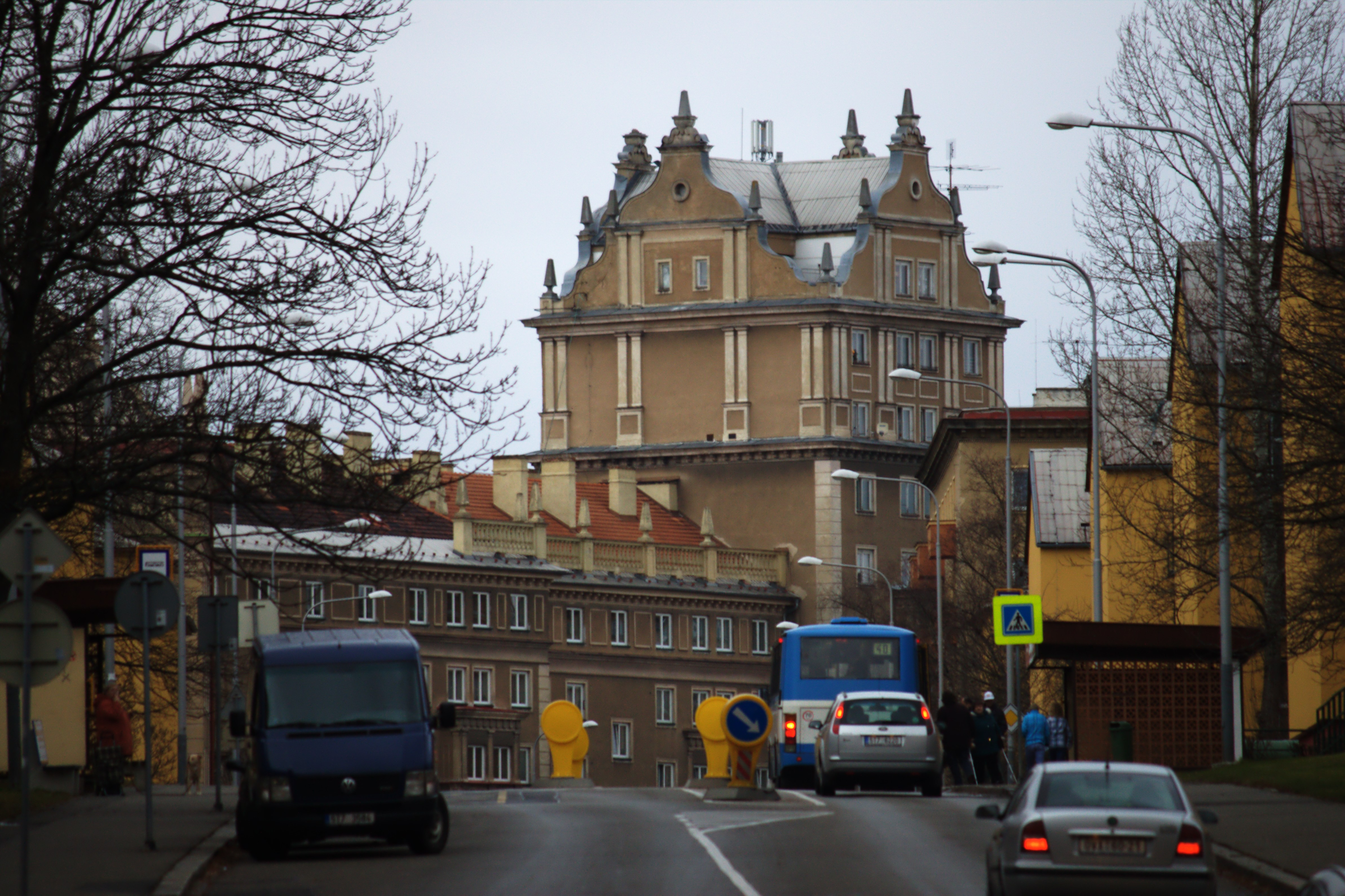 Porubská Street in Ostrava, CZ